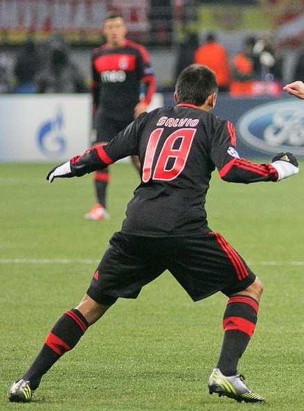 Eduardo Salvio and Dmitri Kombarov